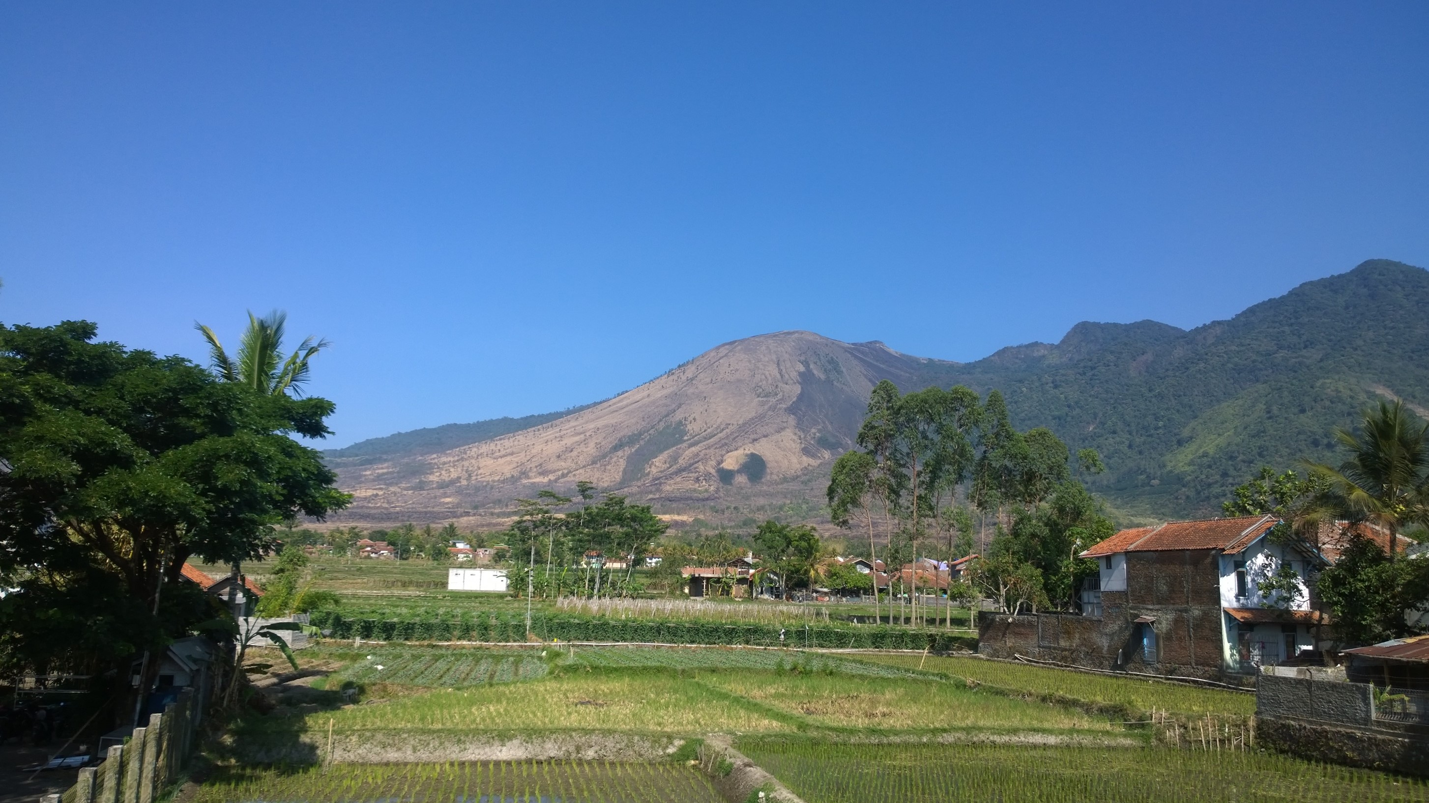 Volcanic crater of Mount Guntur seen from Tarogong Kaler subdistrict